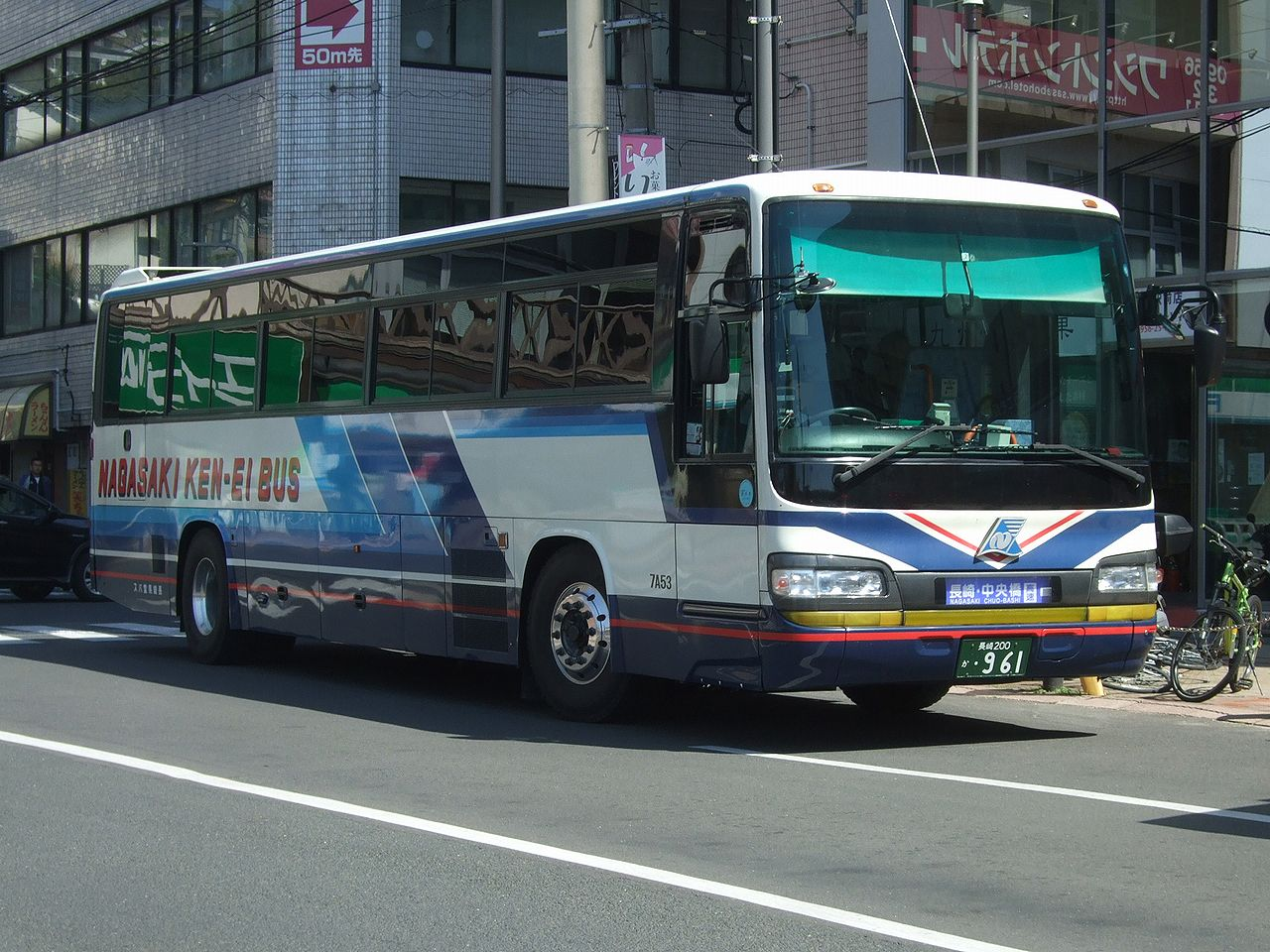 Company:Nagasaki Ken-ei Bus Use:transit bus Car license:NS 200 KA 961 Code:7A53 Chassis manufacturer:Hino Type:Selega Coachbuilder:Hino Body Location:Shirahae-cho, Sasebo City, Nagasaki, Japan.